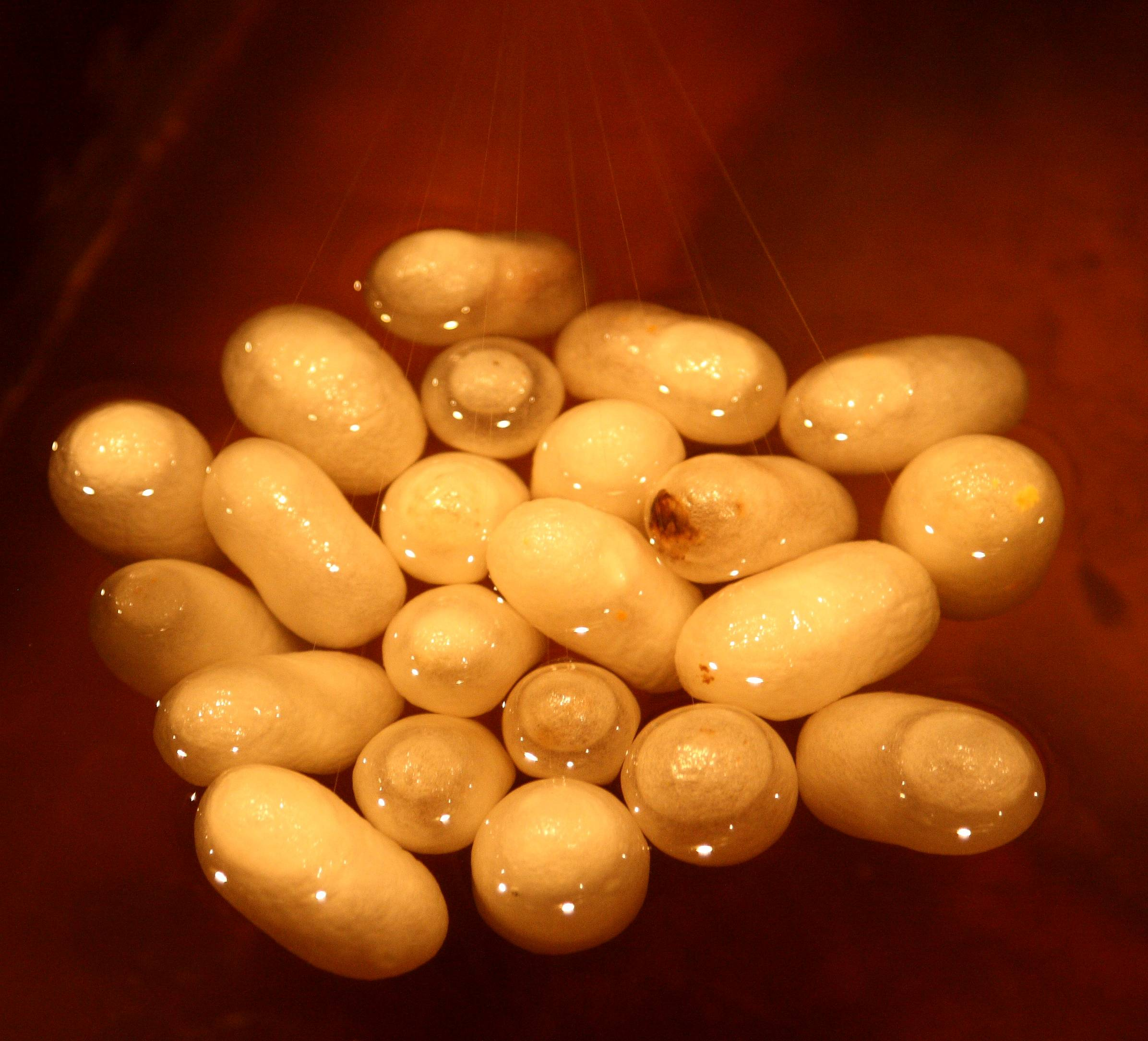 Silk soaking in water - you can see some of the threads I took this photo while stuck on a tour of a carpet factory near Goreme, Turkey